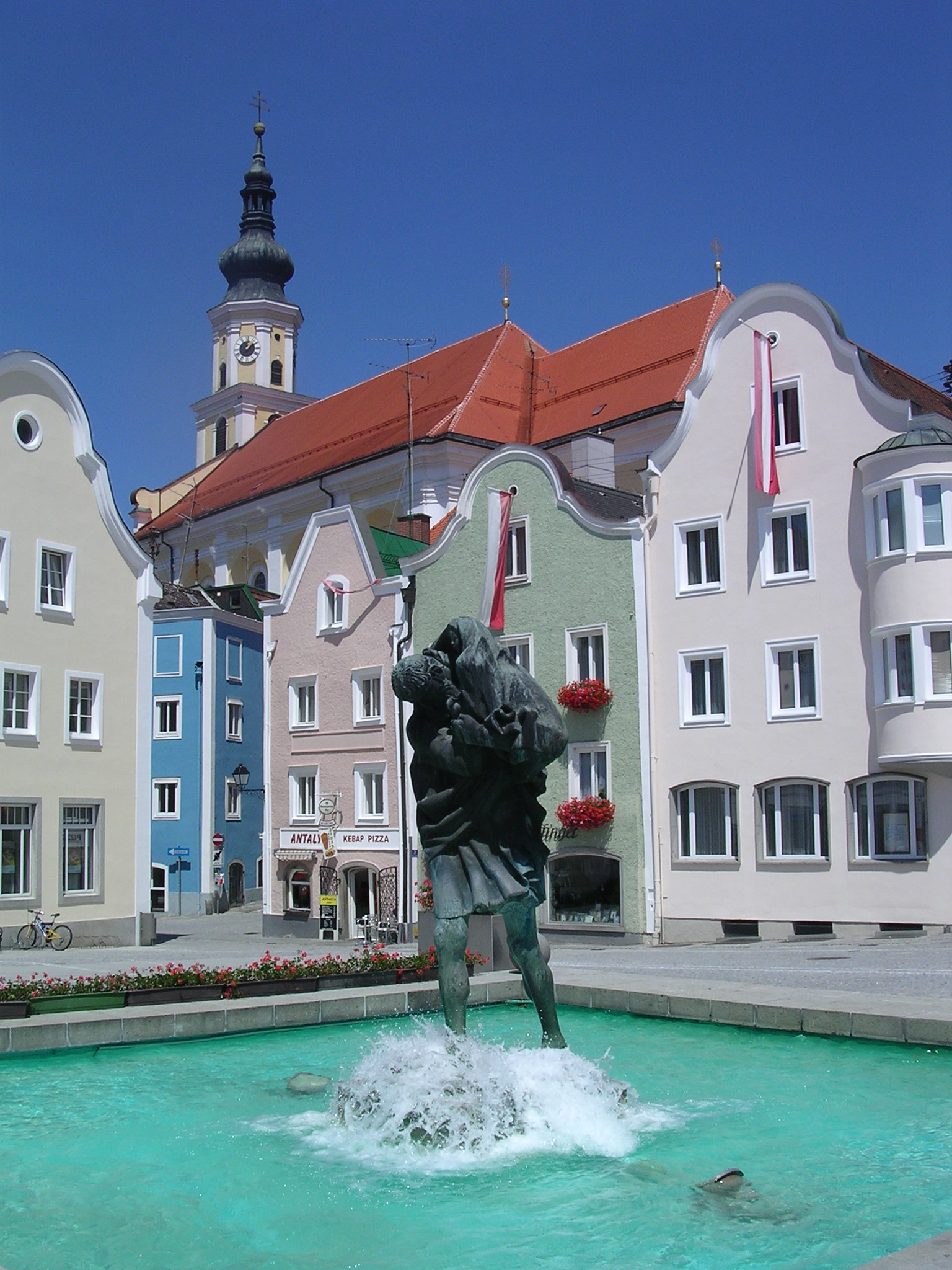 Mainsquare of Schärding